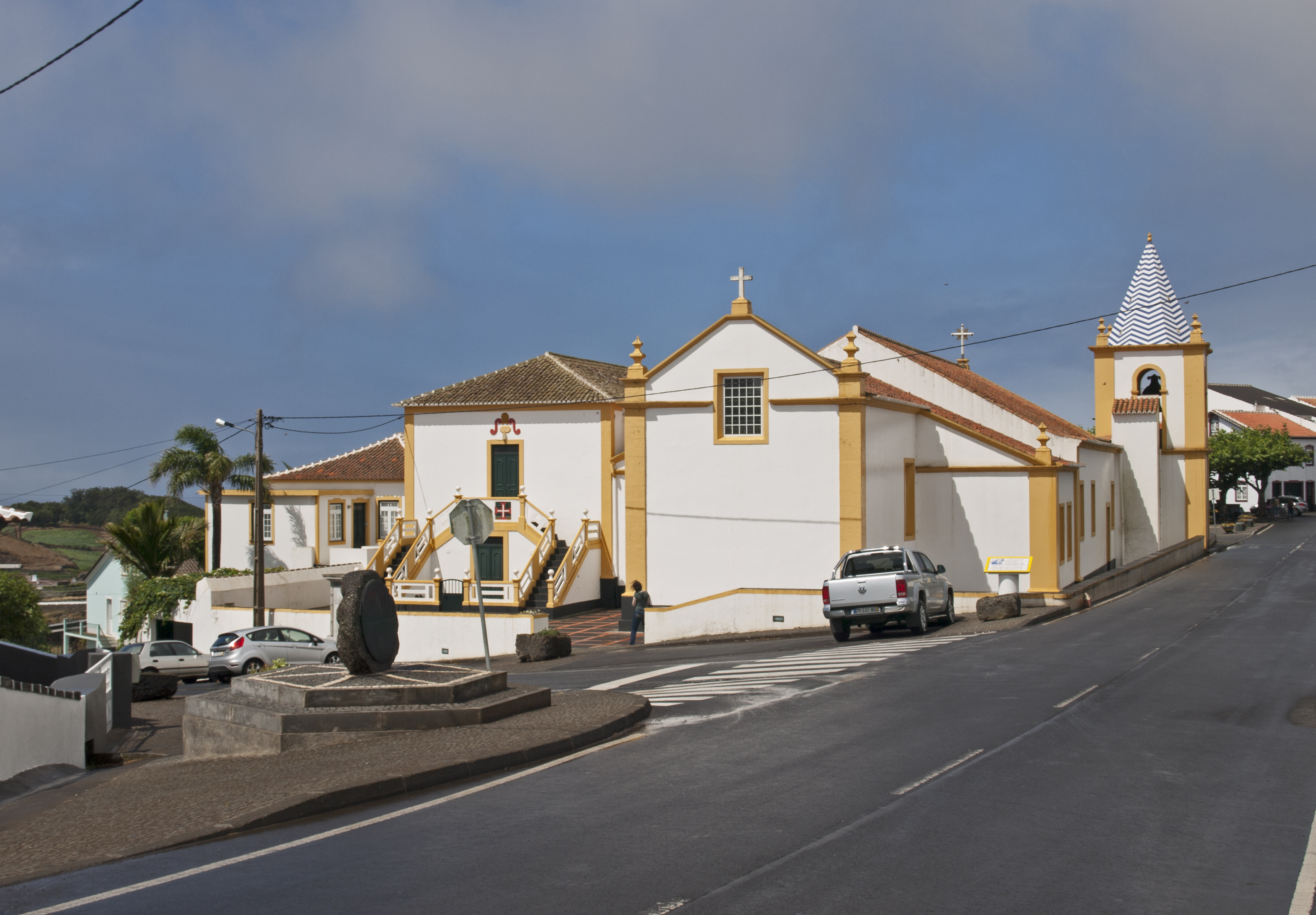 The rear view of the Igreja de Santa Bárbara, Angra do Heroísmo